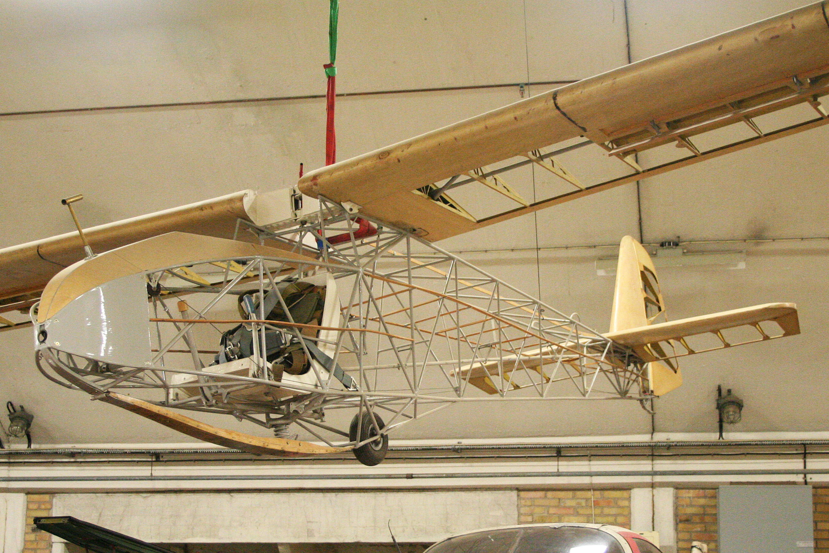 Displayed uncovered and suspended above the restoration area. The Aeroseum, Gothenburg Save. 02-6-2012